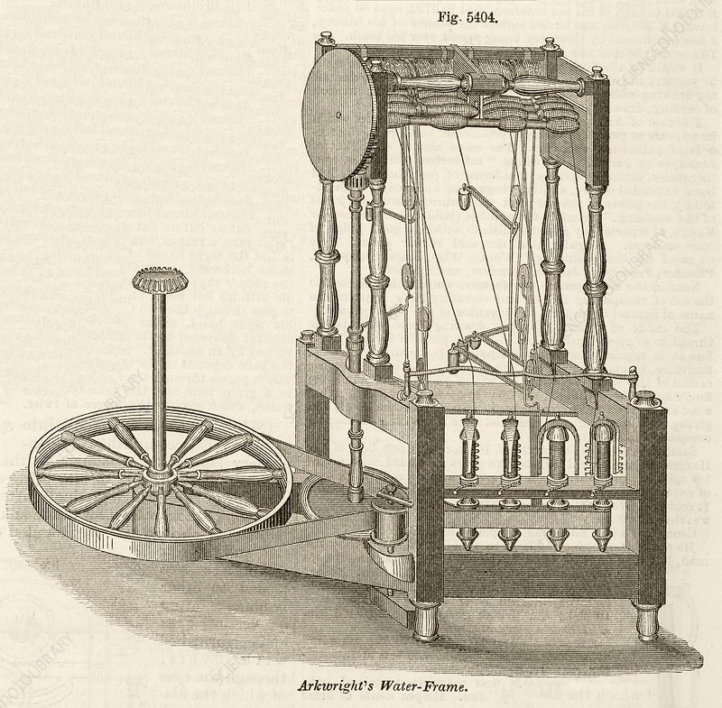 Arkwright_Spinning_frame:This was the precursor to the Water Frame. Images from Marsden 1884 book on Cotton Spinning.